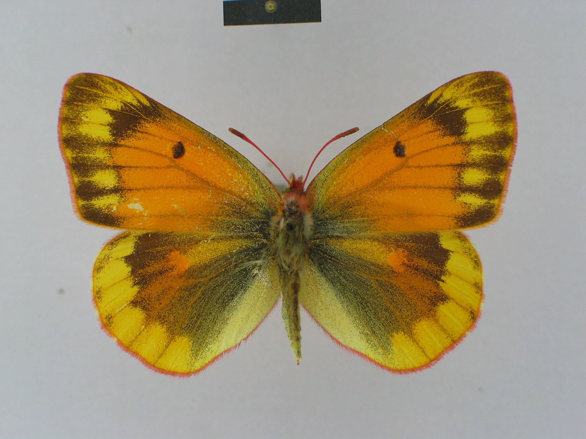 Specimen of the species Colias felderi from the collection of the Zoologische Staatssamlung München; ♀ dorsal side; scalebar=1 cm